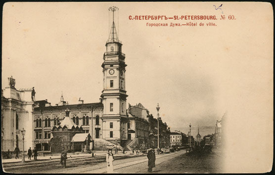 Saint Petersburg (Russia), Nevsky Prospekt.